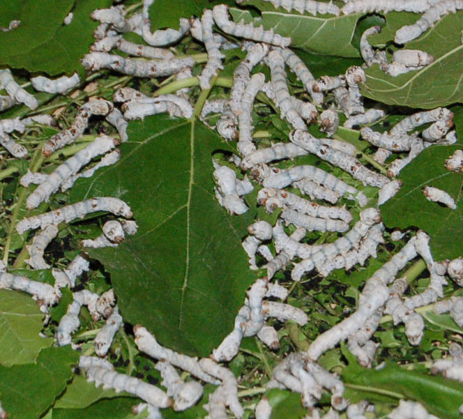 Silk worms and mulberry leaves in Suzhou, China